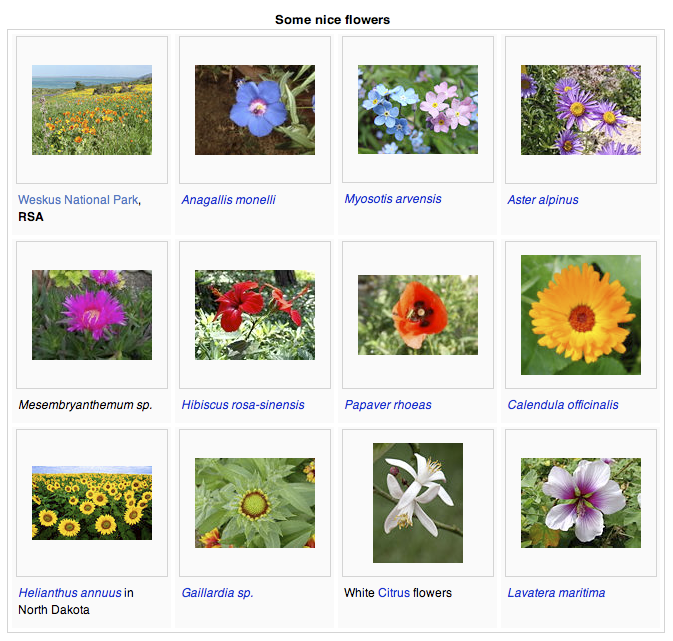 This screenshot shows MediaWiki's default gallery feature (by use of tags) with various text formatting options.